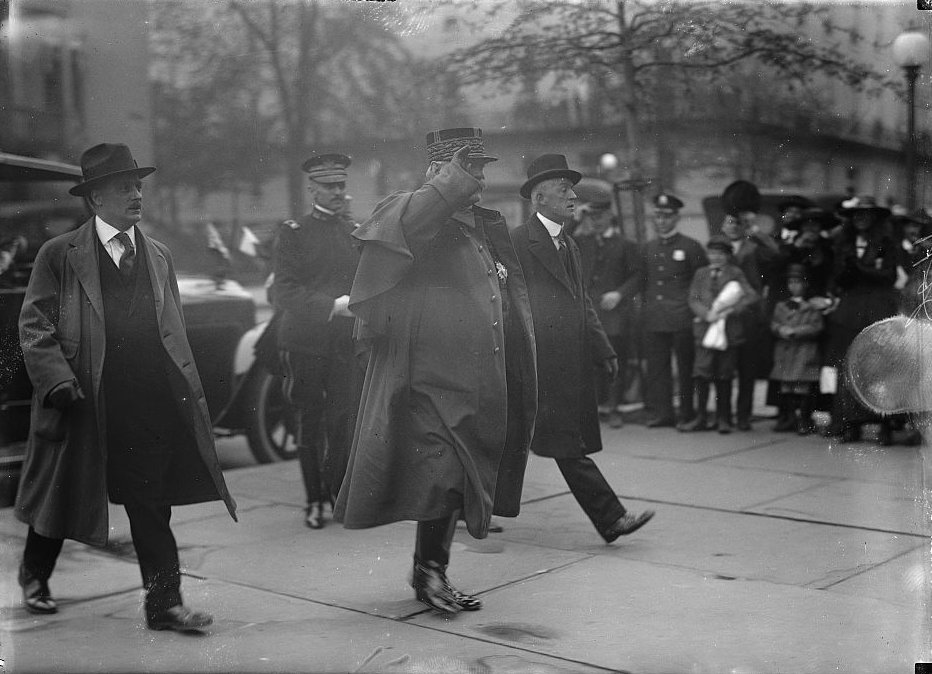 Cropped to remove the irregular border * Title: FRENCH COMMISSION TO U.S. JOFFRE, JOSEPH JACQUES CESARE, MARECHAL OF FRANCE, 1916 * Creator(s): Harris & Ewing, photographer * Date Created/Published: 1917. * Medium: 1 negative : glass ; 5 x 7 in. or smaller * Reproduction Number: LC-DIG-hec-08495 (digital file from original negative) * Rights Advisory: No known restrictions on publication. * Call Number: LC-H261- 8654 [P&P] * Repository: Library of Congress Prints and Photographs Division Washington, D.C. 20540 USA * Notes: o Title from unverified caption data received with the Harris & Ewing Collection. o Gift; Harris & Ewing, Inc. 1955. o General information about the Harris & Ewing Collection is available at o Temp. note: Batch two. * Format: o Glass negatives. * Collections: o Harris & Ewing Collection * Part of: Harris & Ewing Collection (Library of Congress) * Bookmark This Record